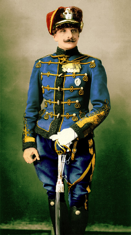 Colonel B. Petrovo-Solovovo, regimental commander (September 1905 – August 1907), in December 1905 promoted to major-general attached to the Suite His Imperial Highness.